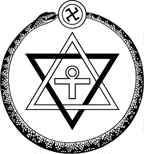 Theosophy Society Seal